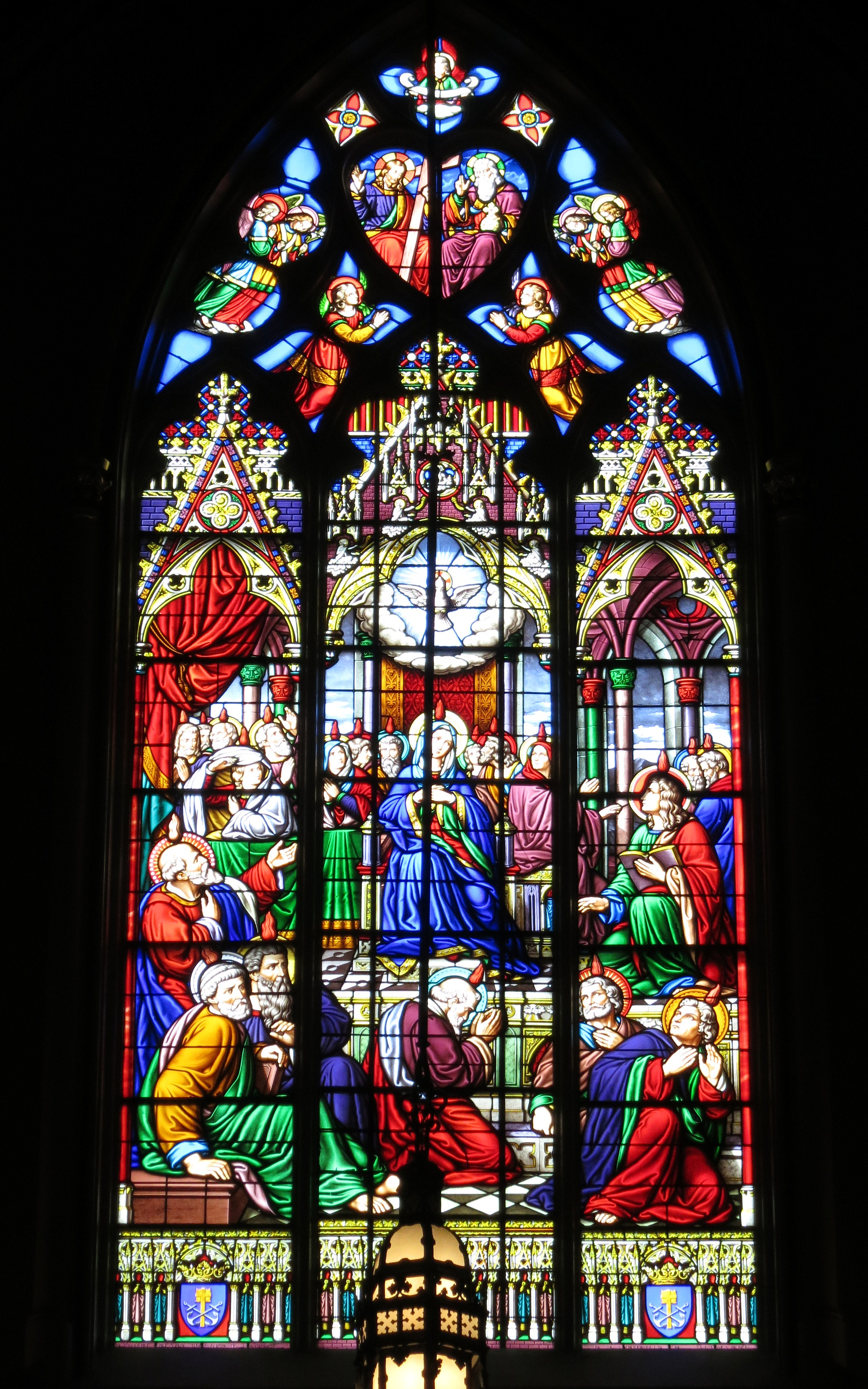 Basilica of the Sacred Heart (Notre Dame, Indiana) - interior, stained glass, Pentecost